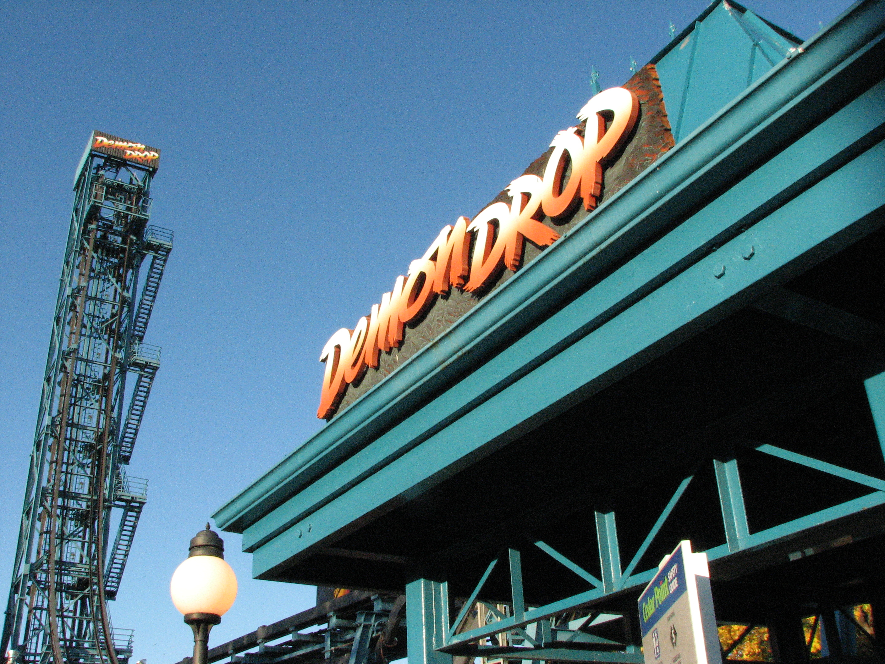 Demon Drop ride with sign in view at Cedar Point.